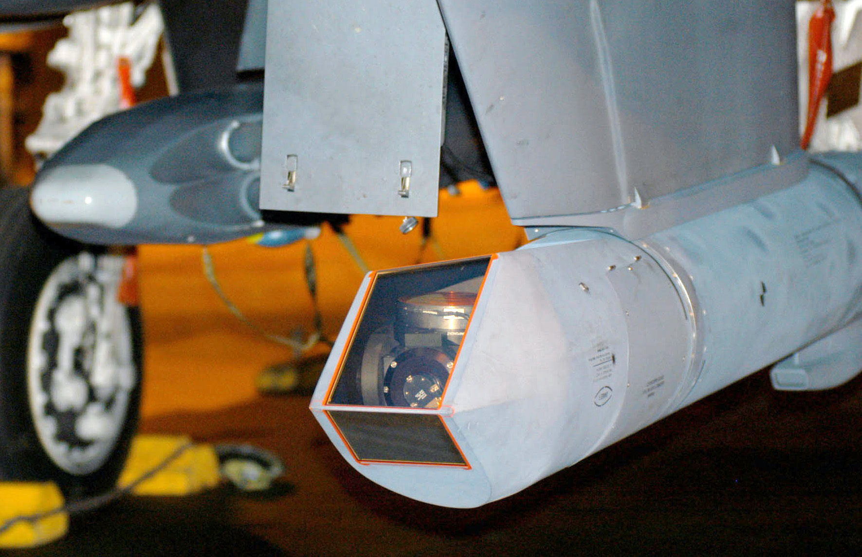 The Sniper ATP Pod